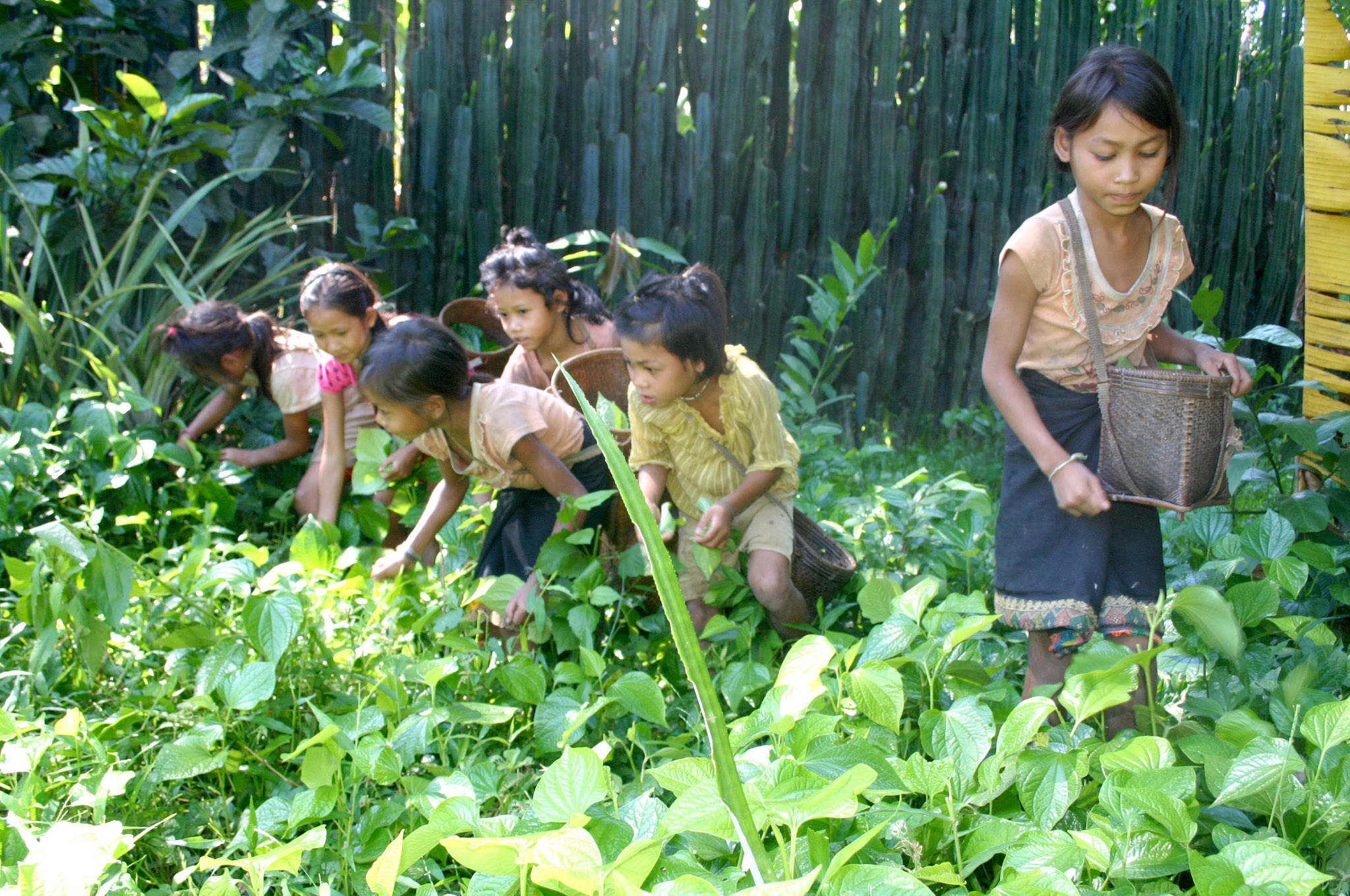 Pak-Oh children in Laos gather pak eelert (wild betel), a green that can be eaten fresh or cooked in buffalo soup and other foods. The Pak-Oh are one of the 49 ethnic groups recognized by the Lao government; nearly all of them live in the southern province of Salavan, where this photo was taken.